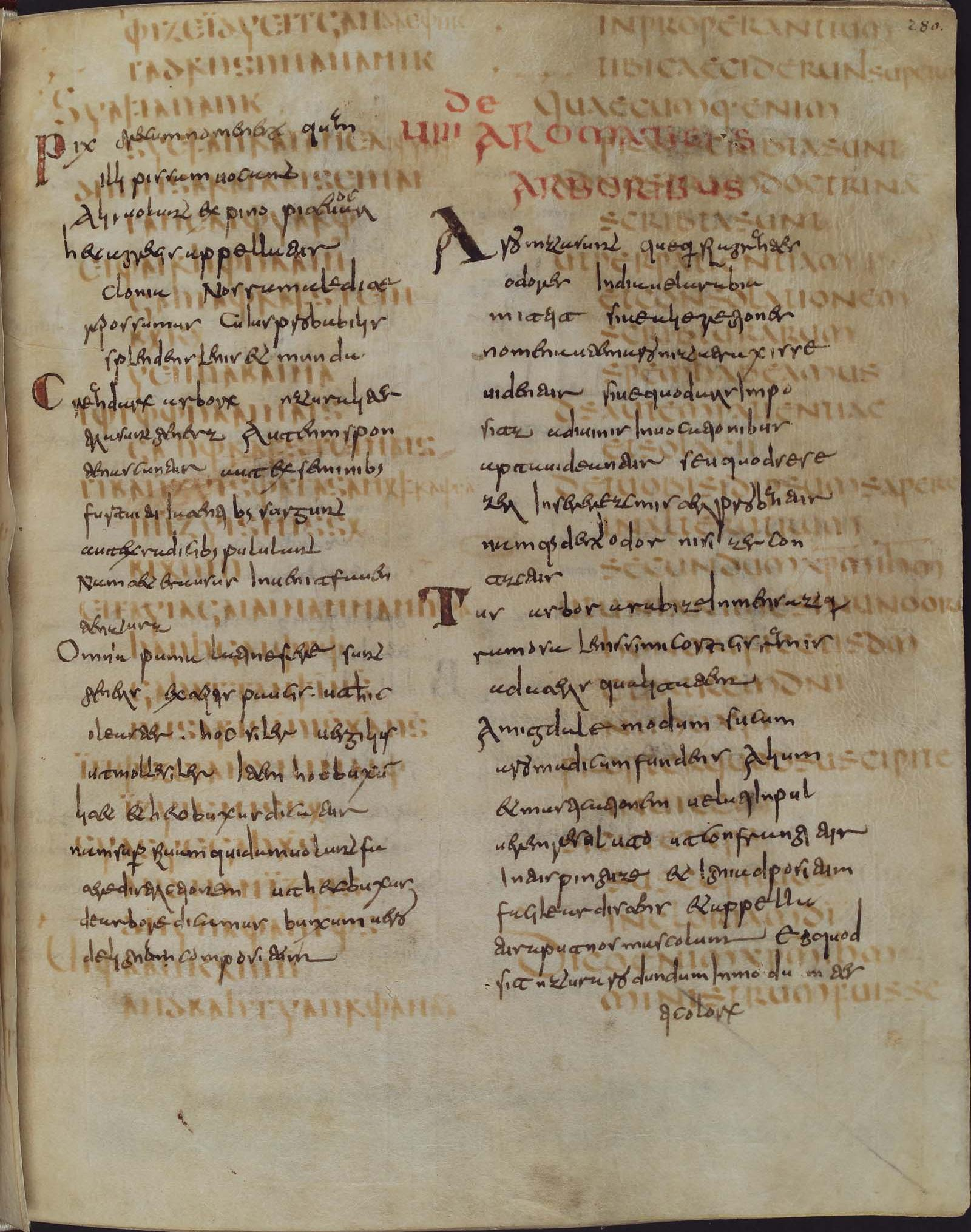 folio 280 recto with text of the Codex Carolinus (Tomans 15:3-8) and palimpst text of the Codex Guelferbytanus